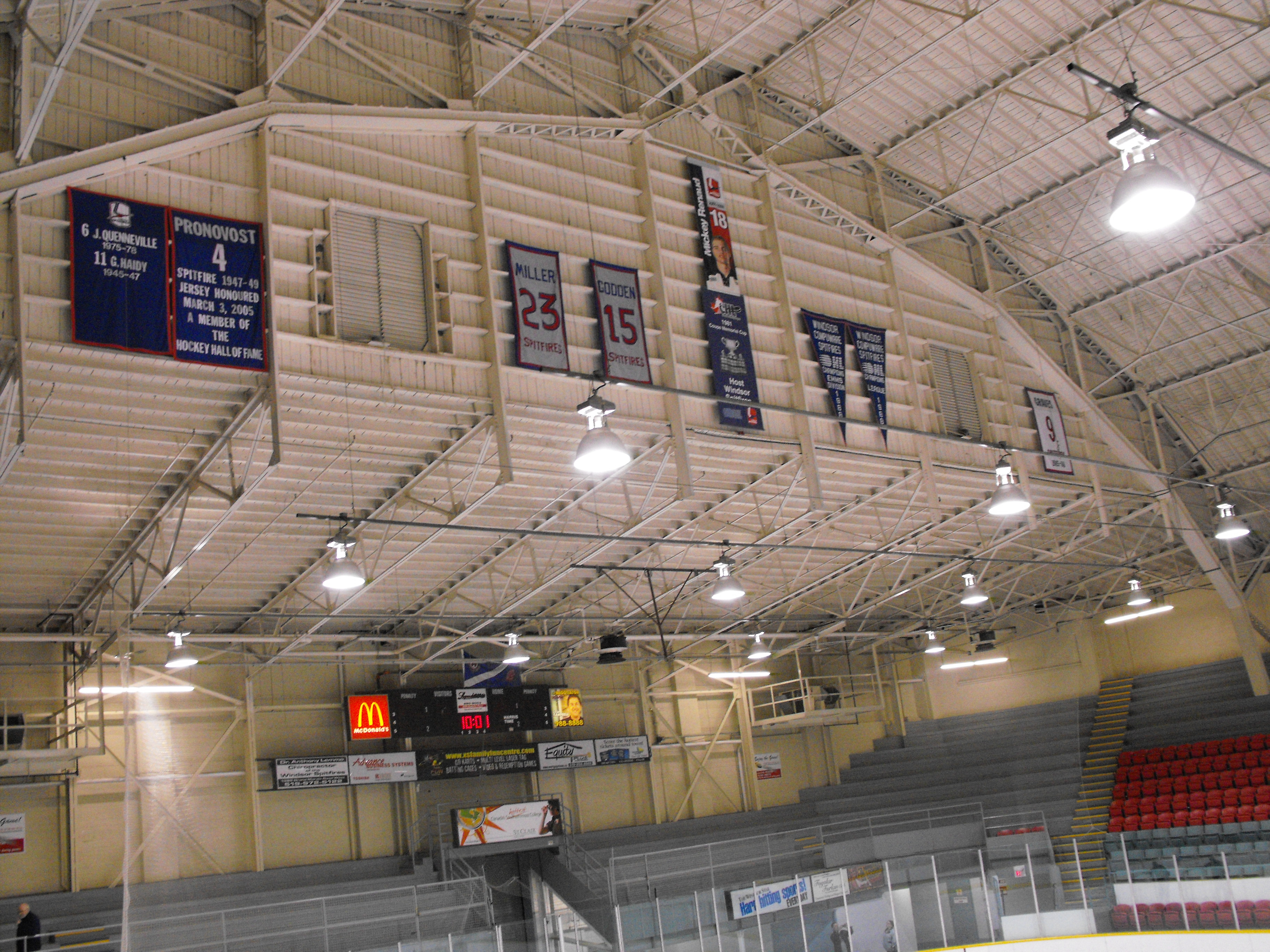 Banners inside Windsor Arena